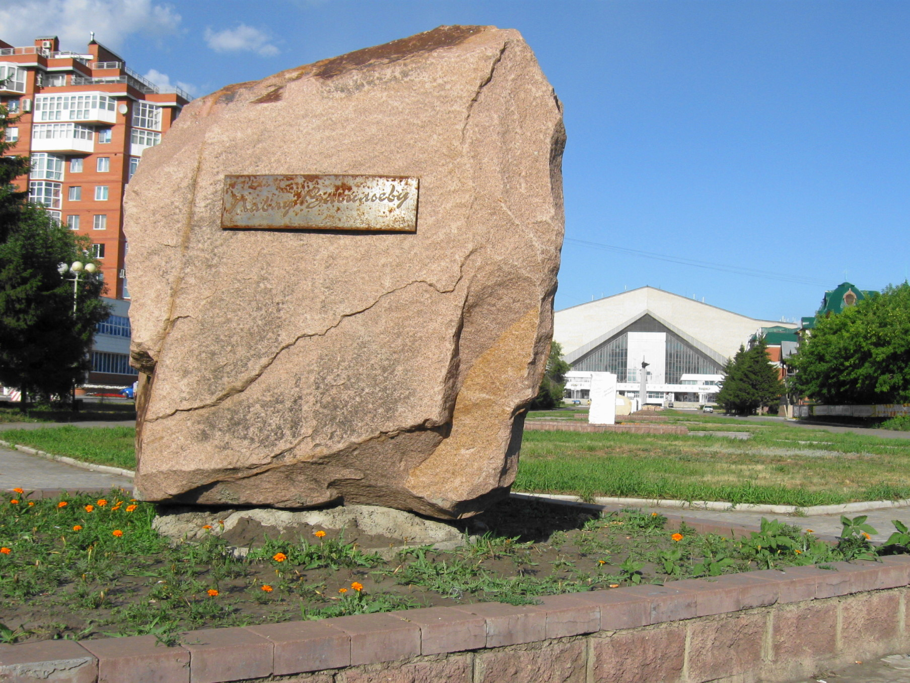 Memorial stone to Russian poet Pavel Vasilyev (Omsk, Russia)